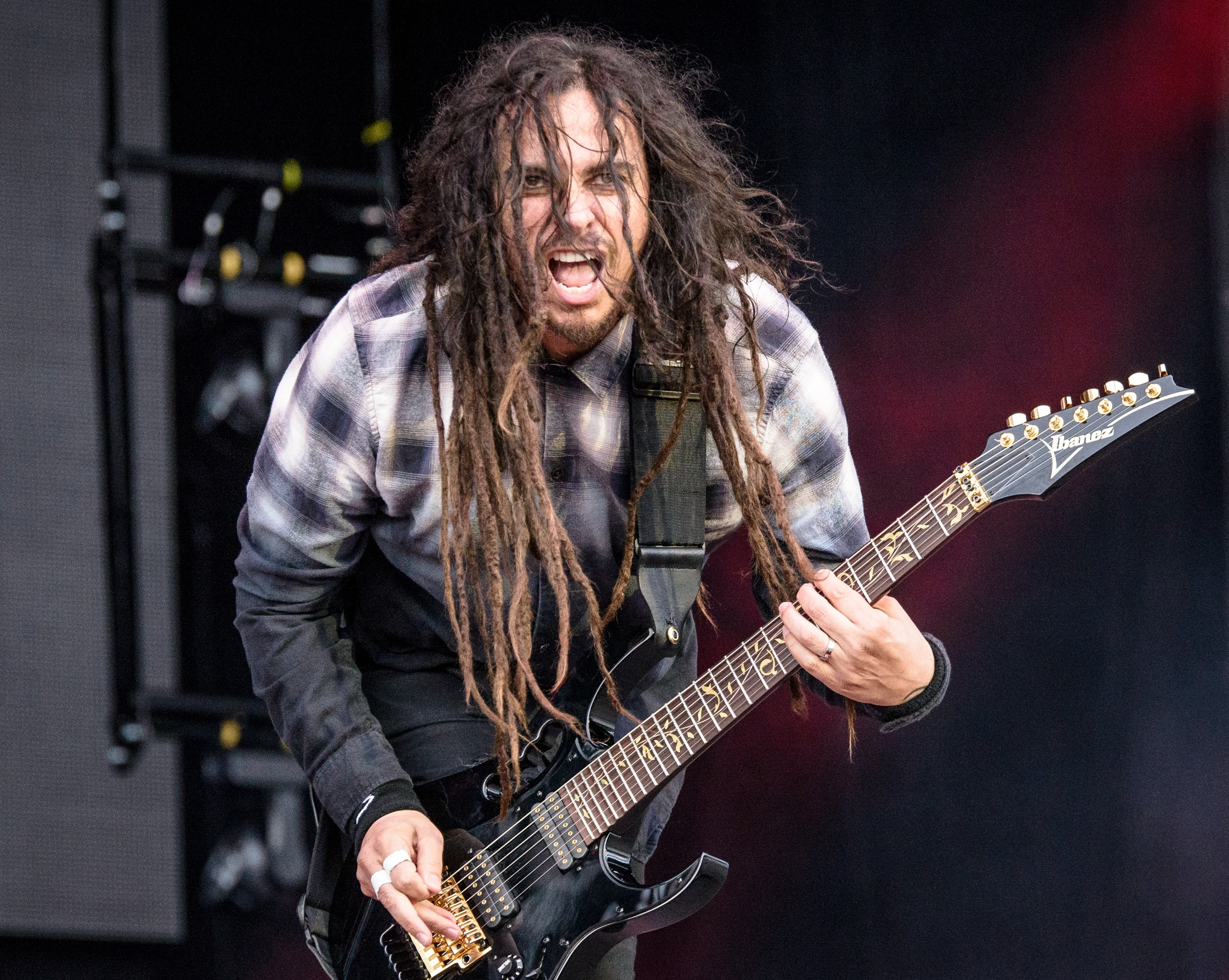 James "Munky" Shaffer performing with Korn at the Rock im Park festival in Nuremberg, Germany on 3 June 2016.